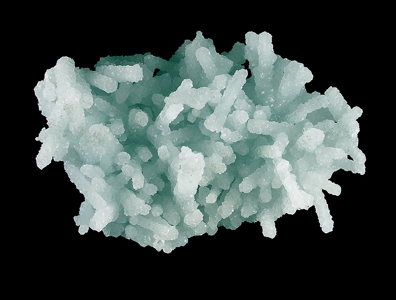 Laumontite, Prehnite Locality: Malad, Ward 38, Mumbai (Bombay), Mumbai District (Bombay District), Maharashtra, India (Locality at ) Size: cabinet, 14.7 x 9.5 x 4.8 cm Prehnite ps. Laumontite Very fine plate of pale mint-green Prehnite pseudomorphs that have excellent luster and lovely form. The spears have numerous small balls of Okenite that add very nice association, as well as a partial coating of (?). There is practically no damage on this plate, which is amazing. Overall, this is a terrific specimen.